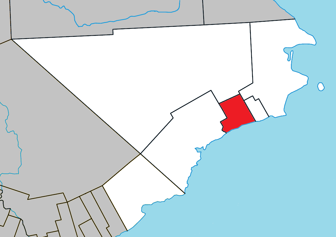 Location of Grande-Rivière, Quebec within Le Rocher-Percé Regional County Municipality.